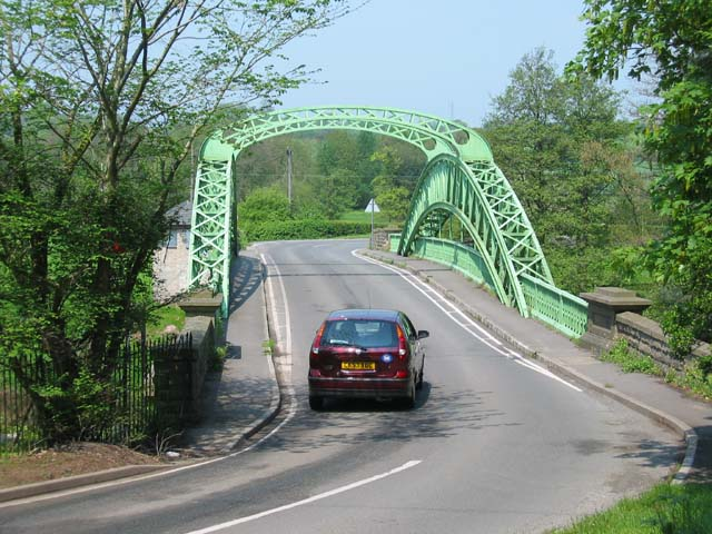 Chain Bridge. On the road from Abergavenny to Usk